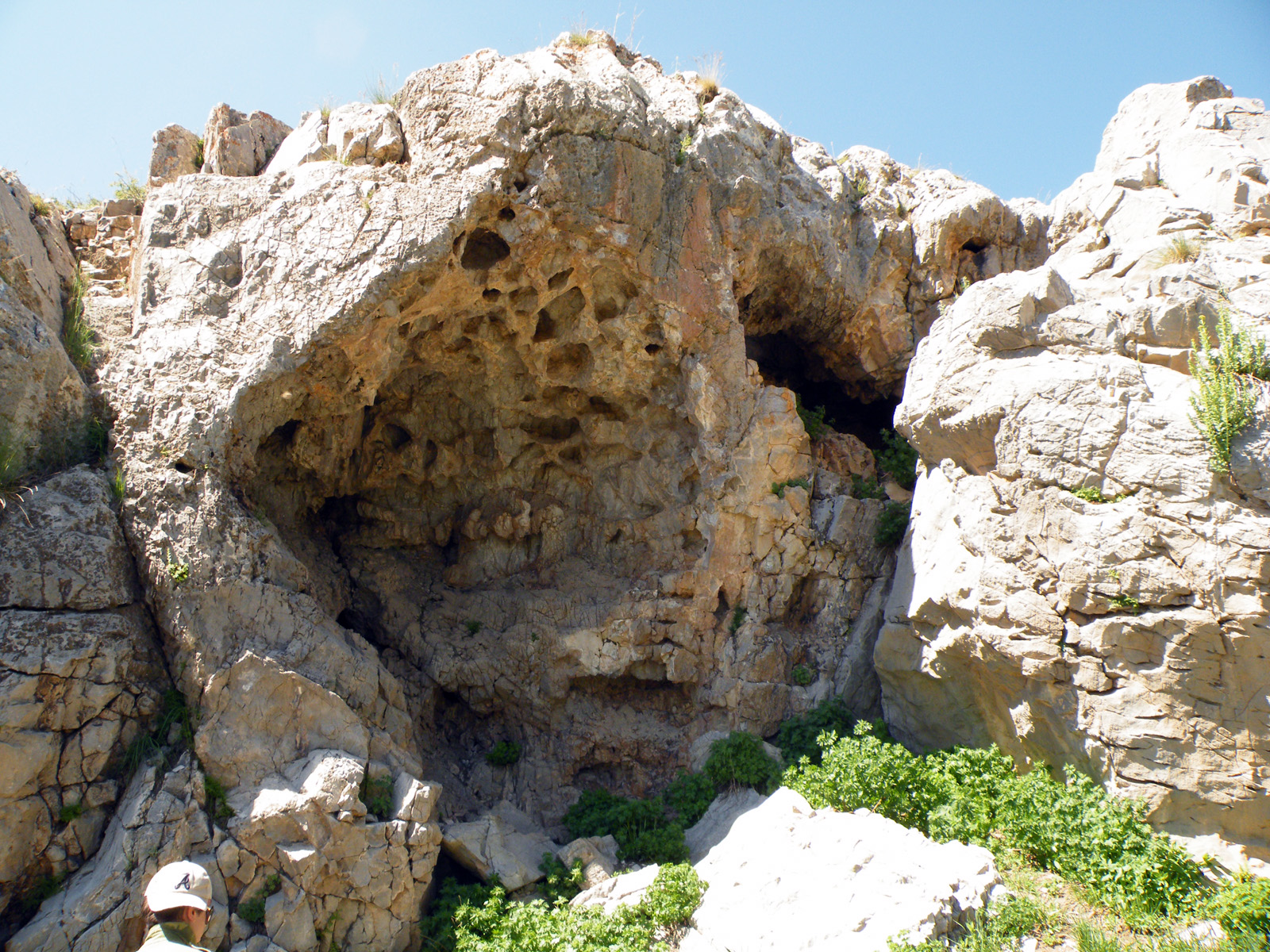 Karst phenomens on the Pulatkhan plateu. Tashkent area, Uzbekistan.